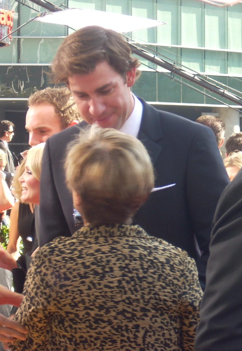 Actress Cloris Leachman interviewing John Krasinski. 60th Primetime Emmy Awards.